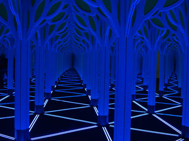 A picture of the inside of the mirror maze showcasing its infinite looking repetition.